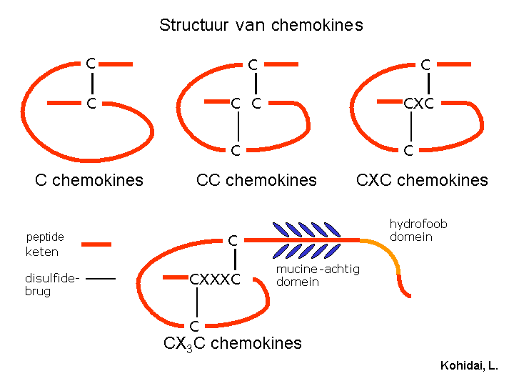 Structure of chemokine families